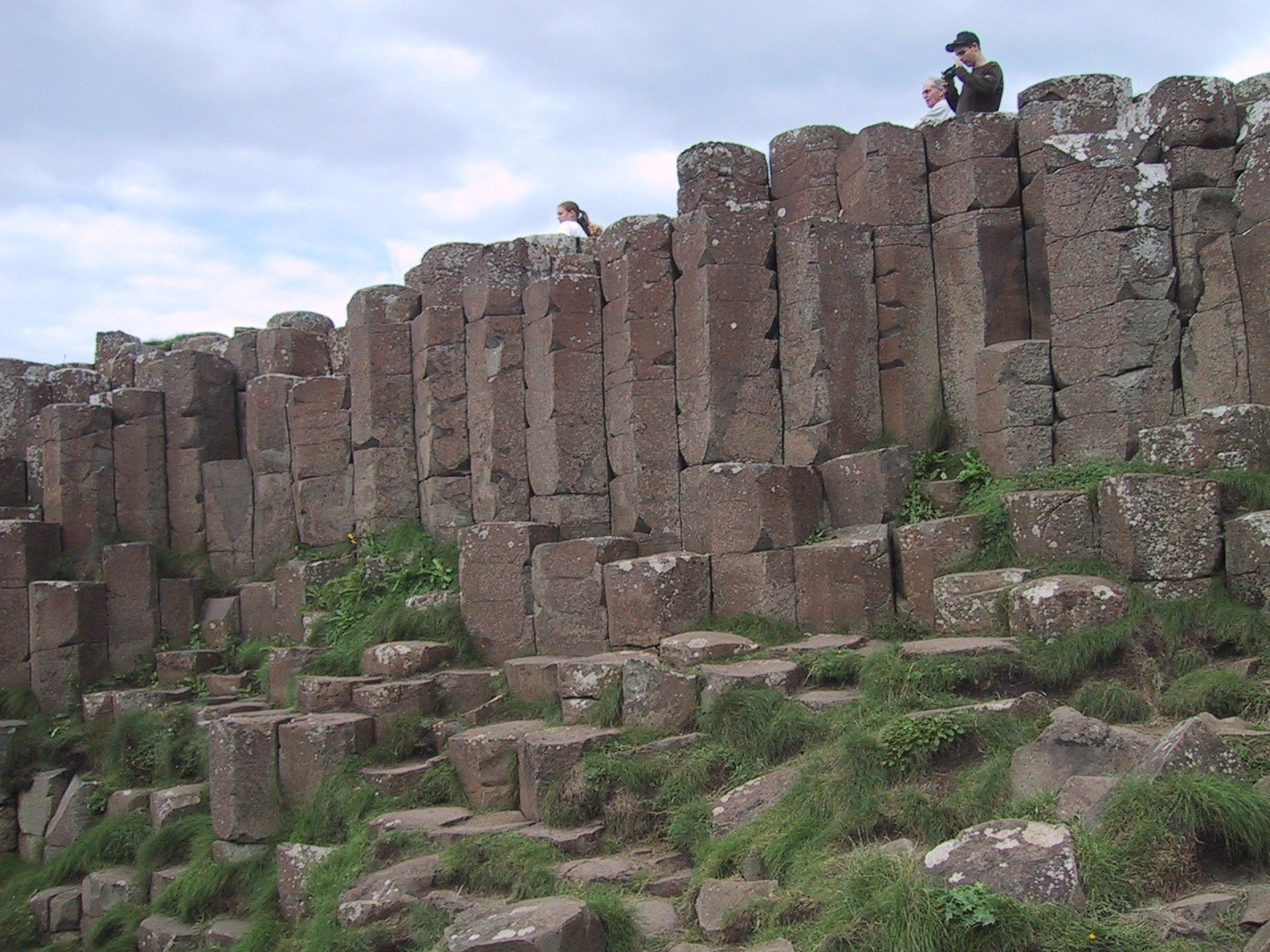 Giant's Causeway: Landward Columns